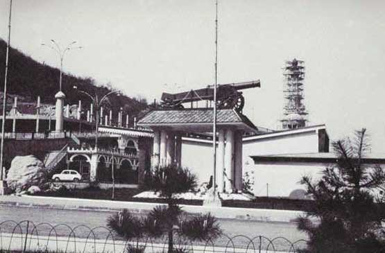 Consonno (Italy) before 1976